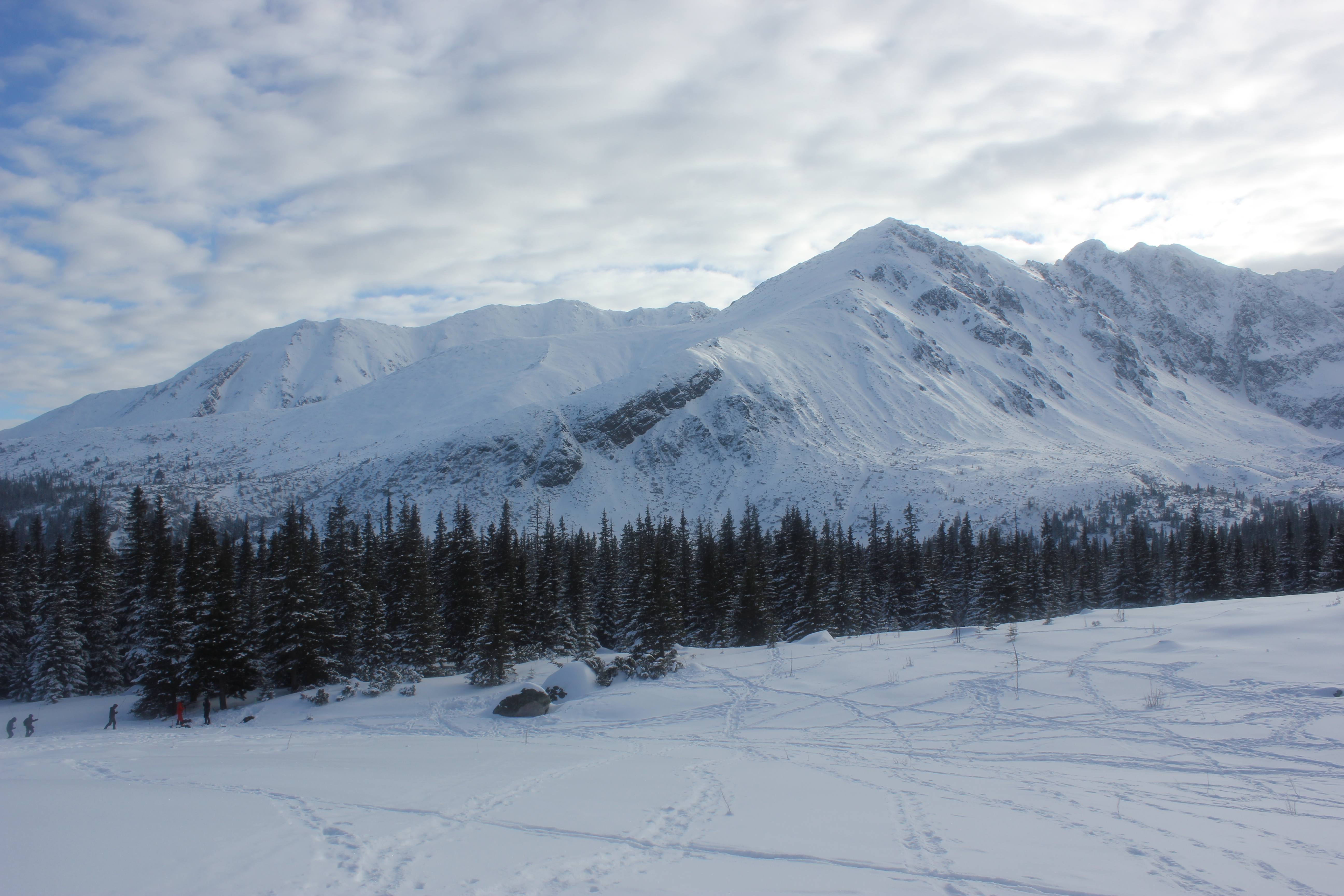 Hala Gąsienicowa